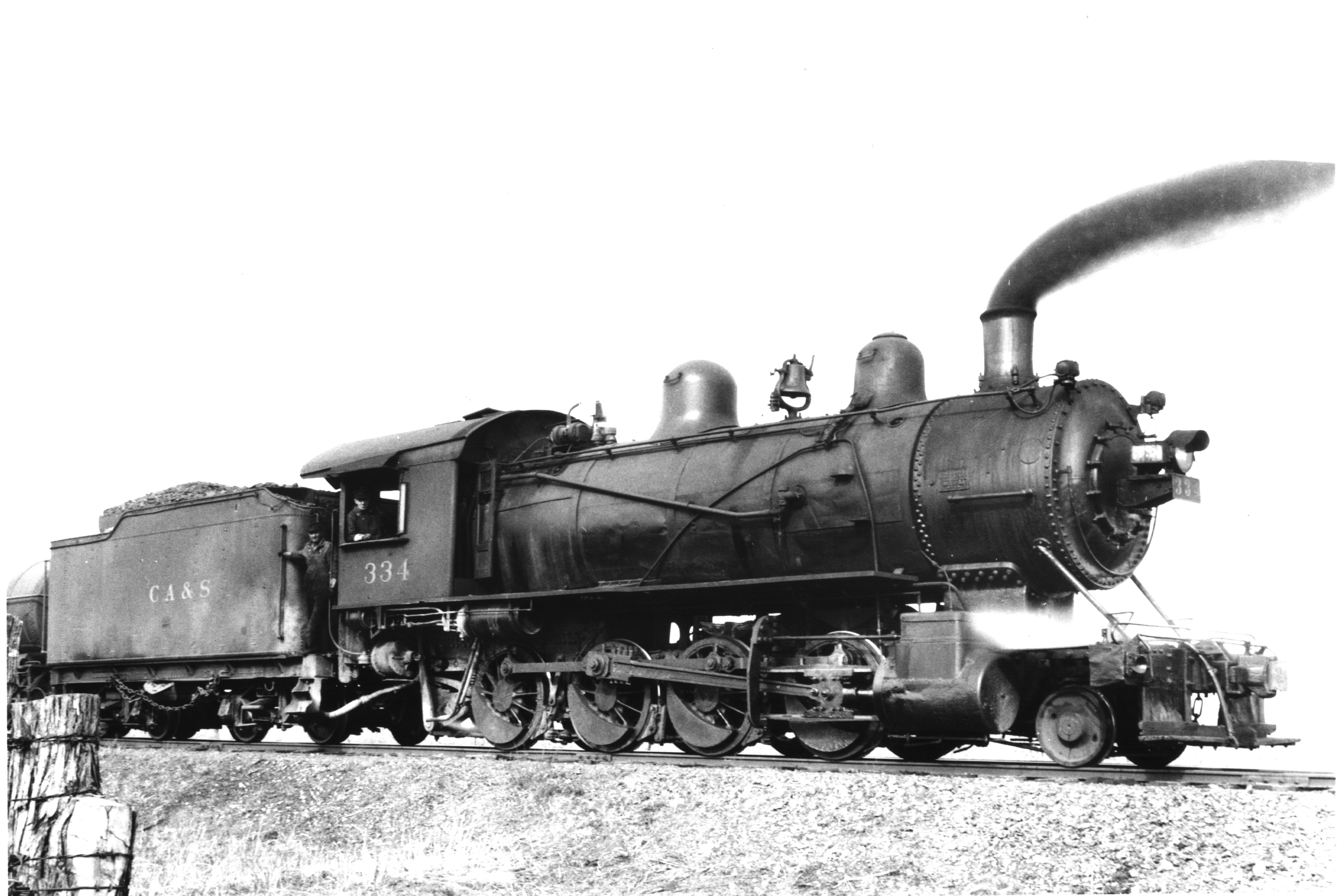 CA&S engine 334 steaming through Swanington, Indiana in 1931. My Grandfather and Great Uncle worked for this railroad.